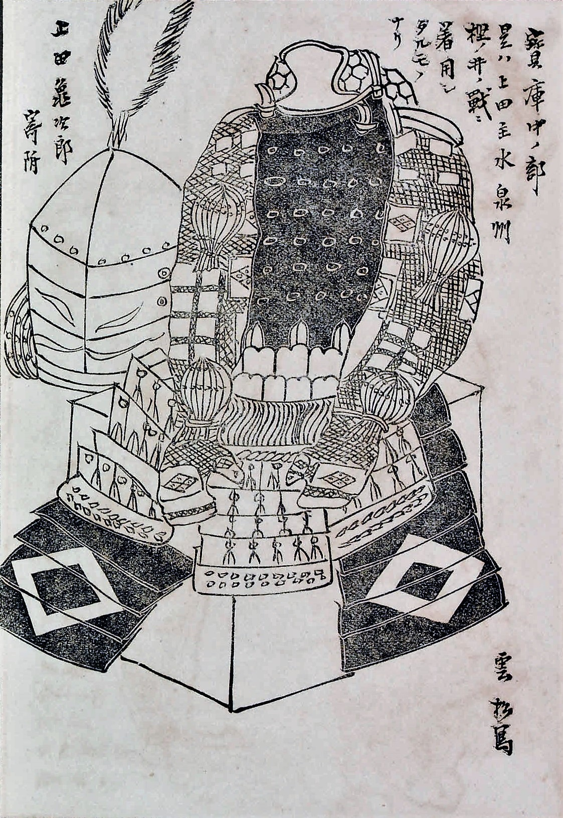 The picture of Ueda Shigeyasu (Soko)'s armor, the collection of Itsukushima jinja, Hiroshima prefecture, Japan.